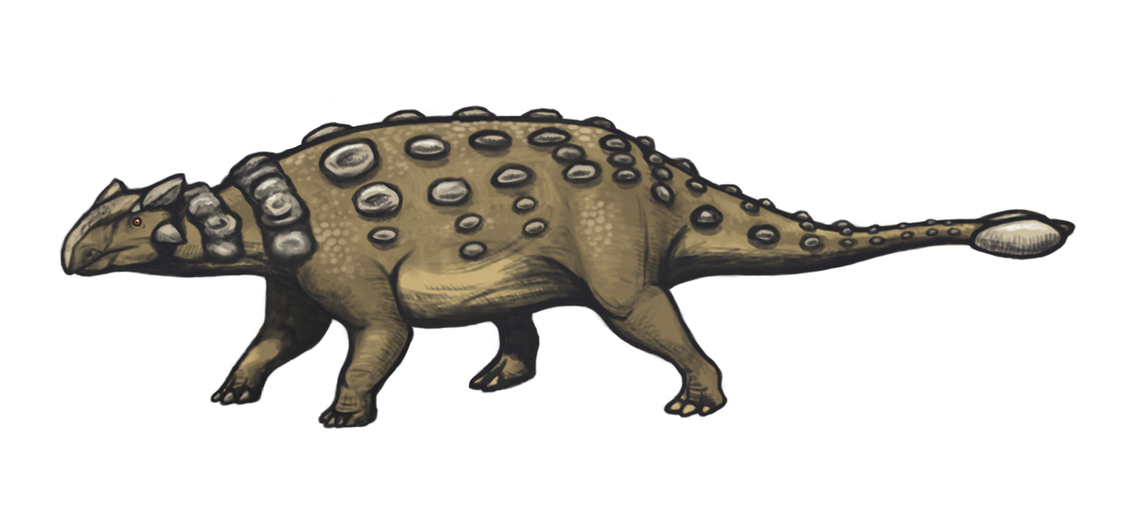 Simple drawing of Ankylosaurus magniventris, a North American Cretaceous ankylosaurid. Based on skeletal reconstruction in Paul 2010.